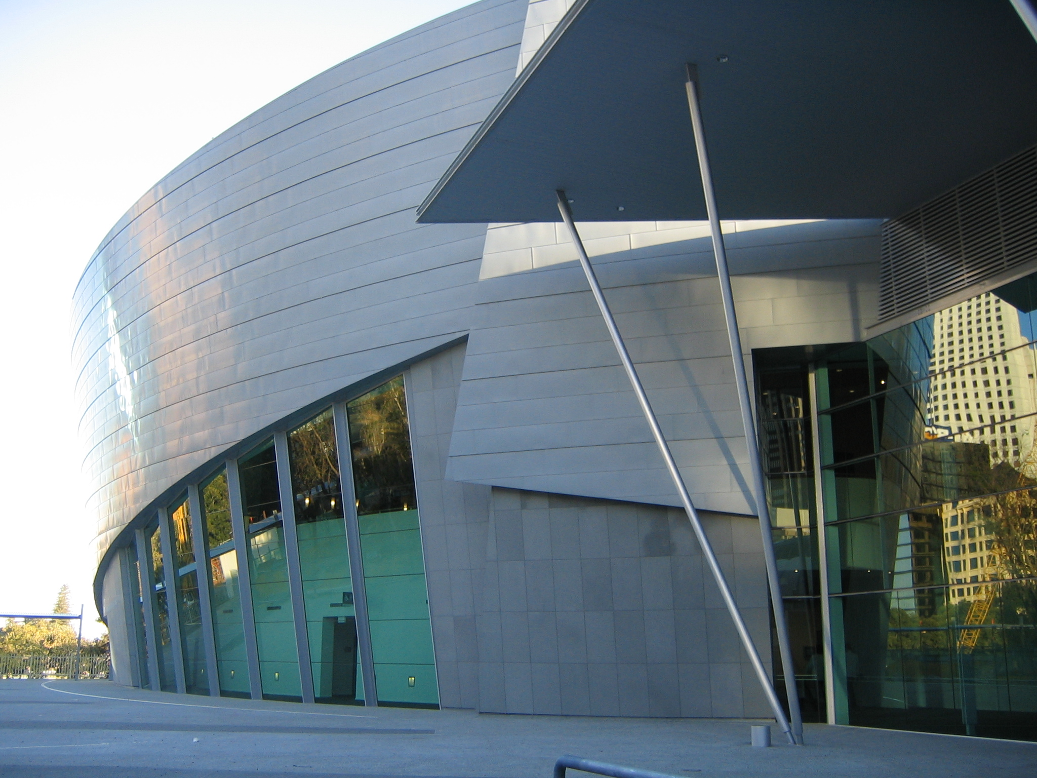 Perth Convention Exhibition Centre, Western Australia.